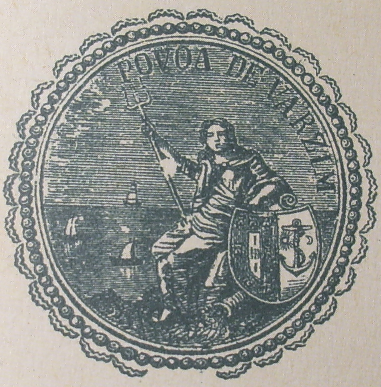 Banco da Póvoa logo - Póvoa Bank Logo (1867)